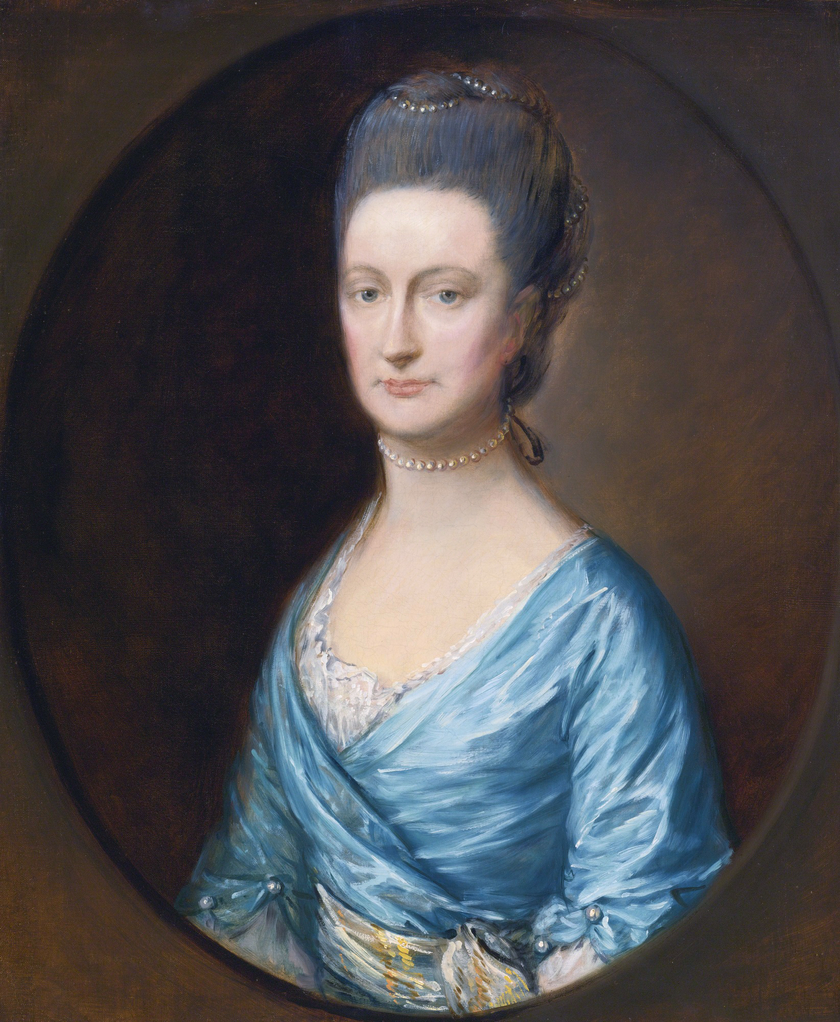 Caroline Fludyer oil on canvas 76.2 x 63.5 cm. circa 1772